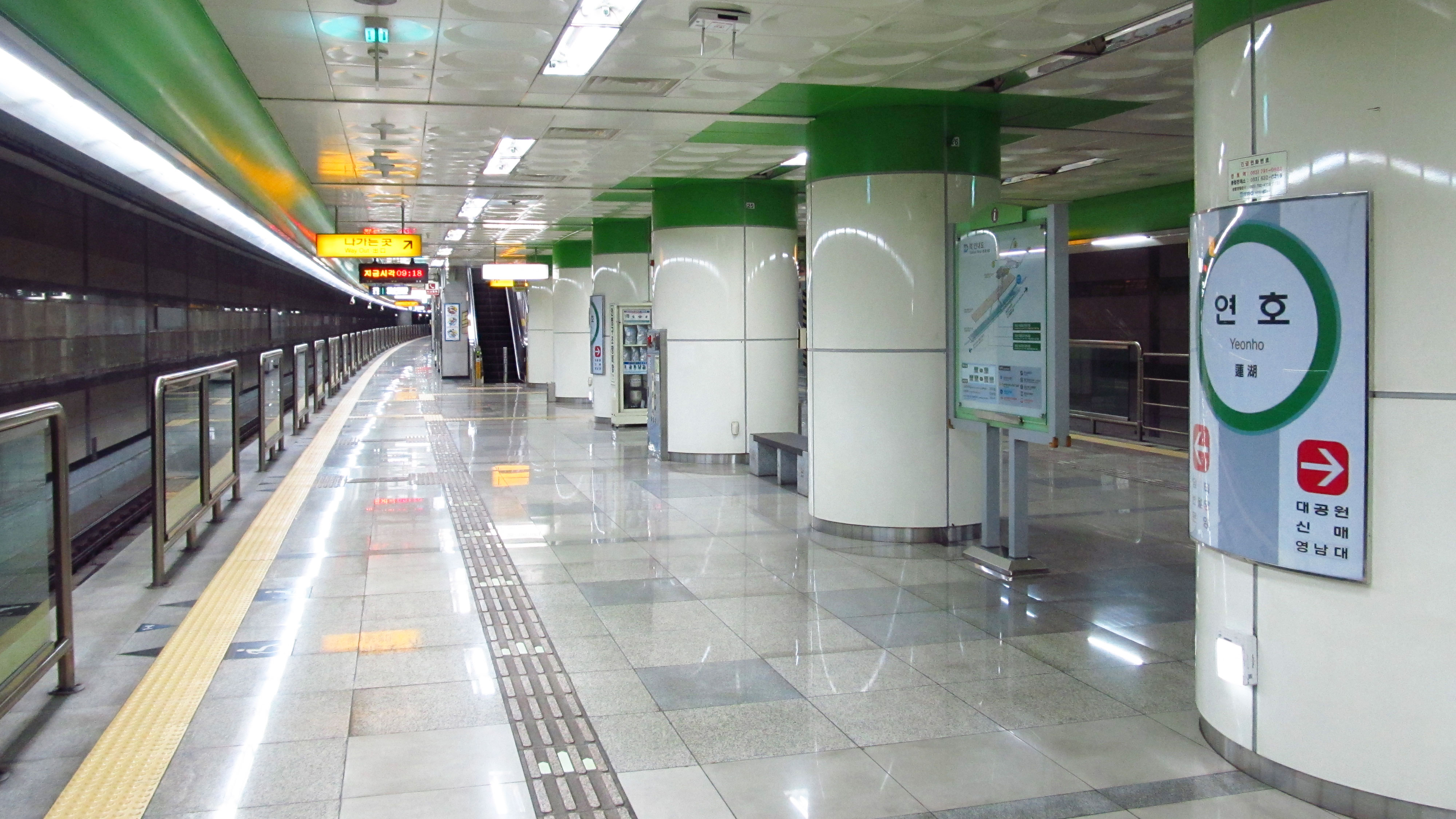 The platform of Yeonho Station on the Daegu Metro Line 2